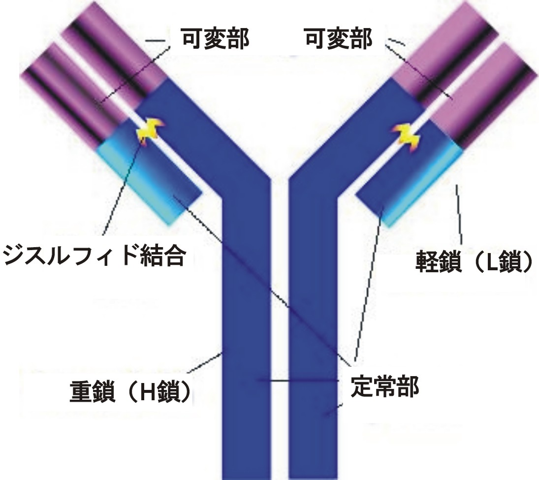 Self collection of Muntasir du